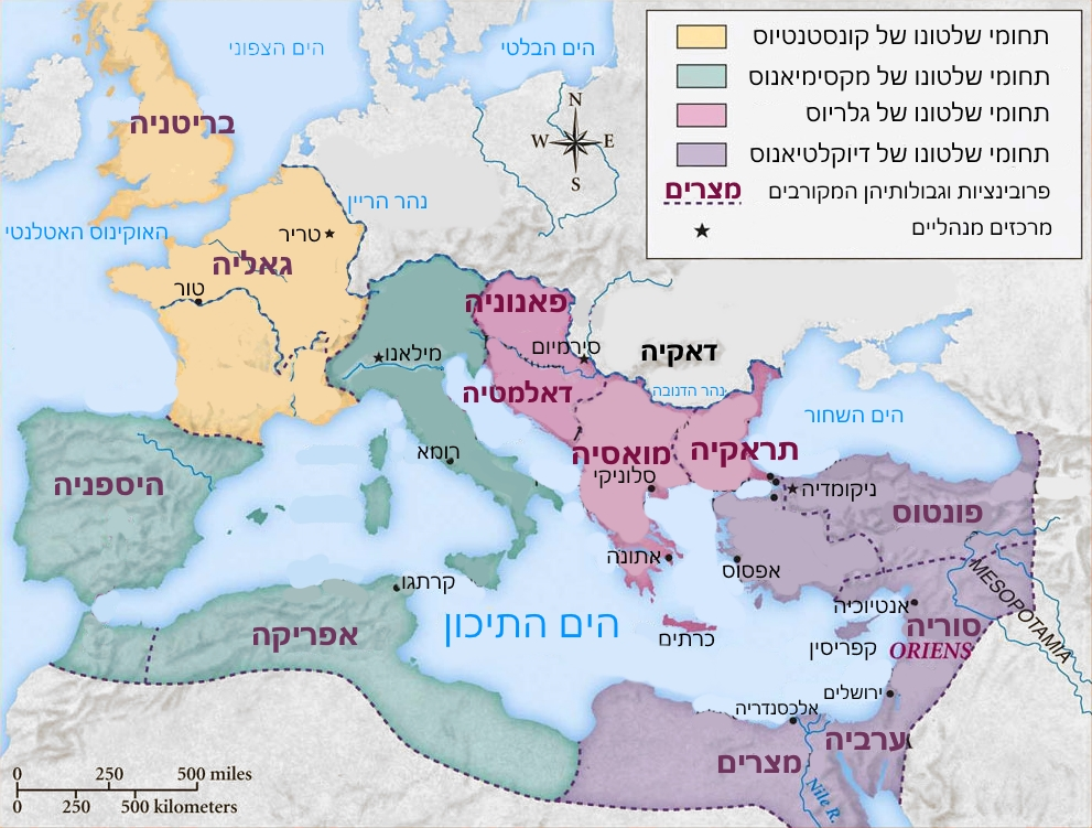 historic map of Roman Empire during the first tetrarchy.